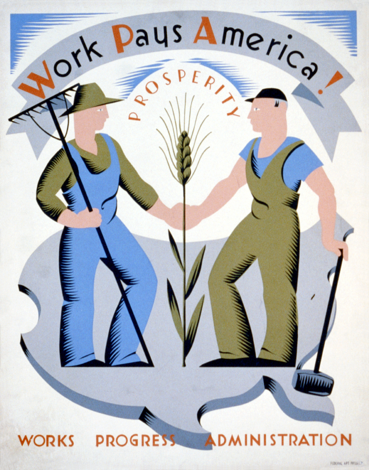 Poster for Works Progress Administration encouraging laborers to work for America, showing a farmer and a laborer.